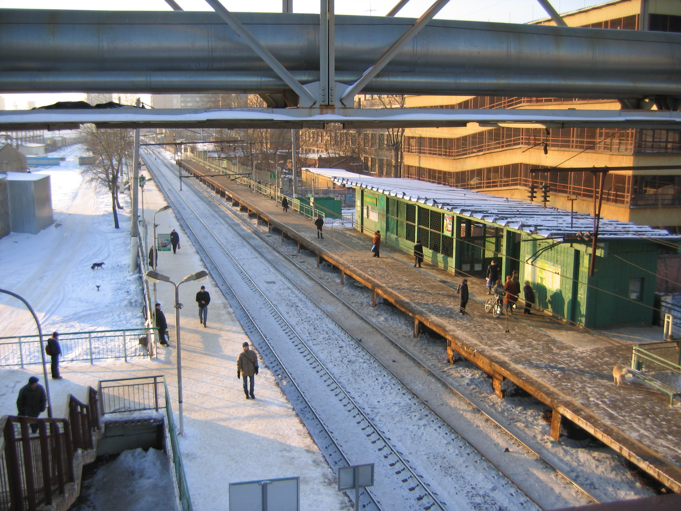 Krasny Baltiets railway station in Moscow, Russia